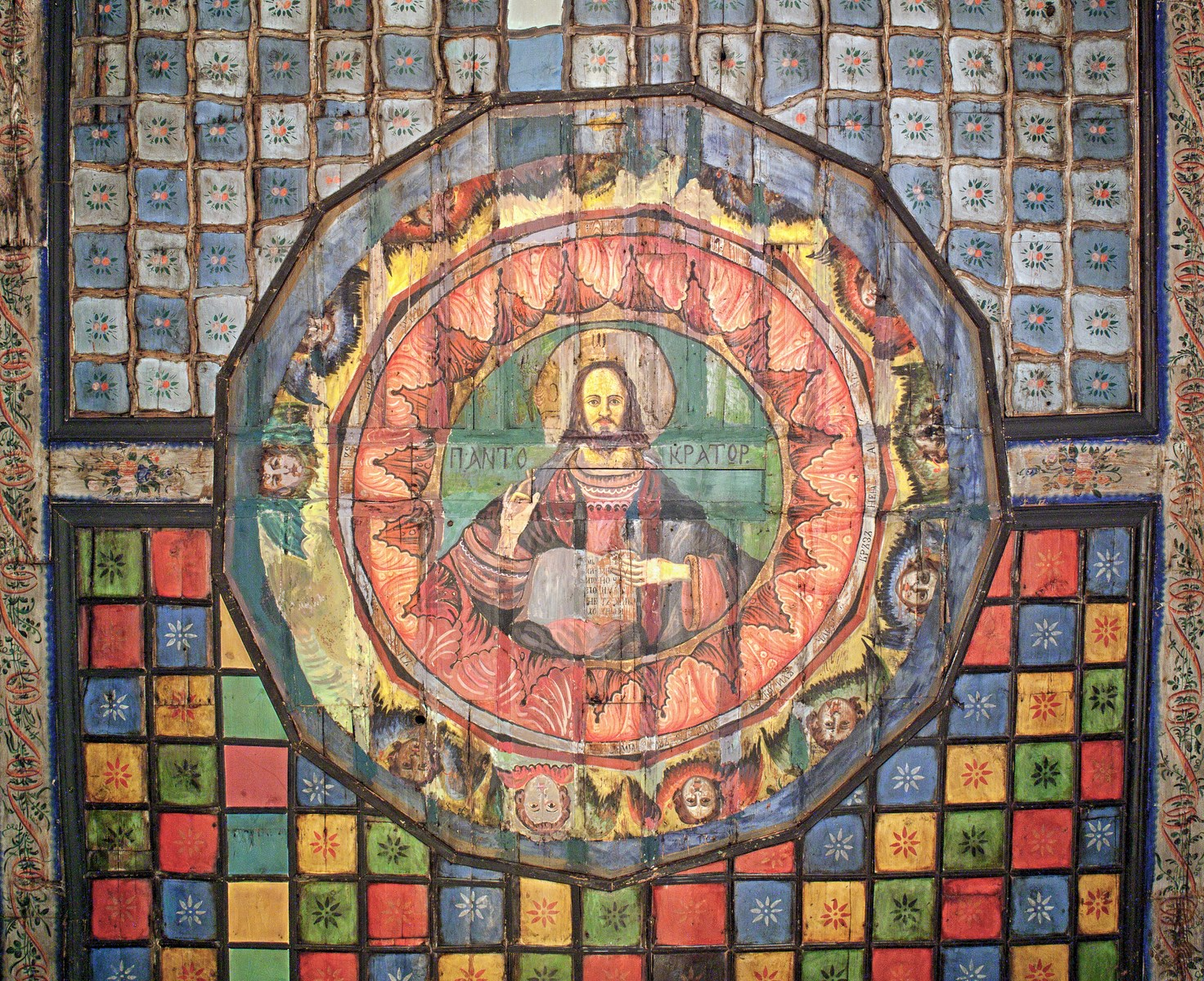 Agiou Georgiou Kilkis